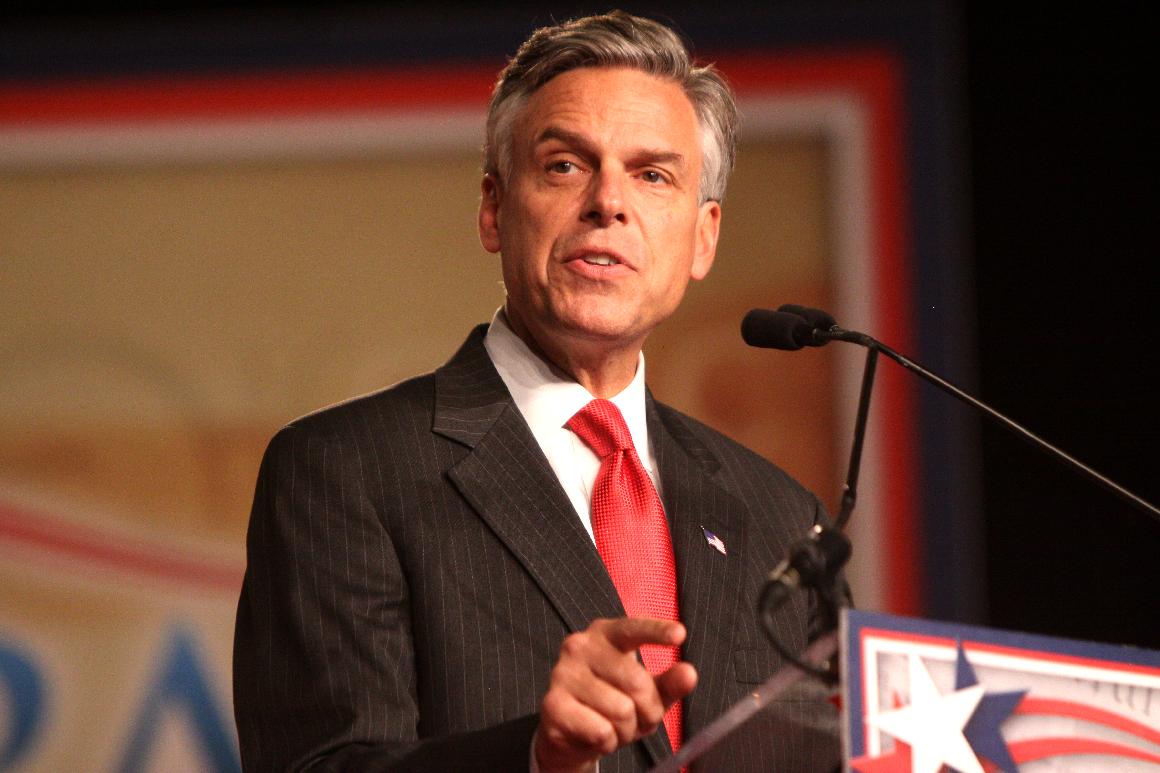 Former Governor Jon Huntsman speaking at CPAC FL in Orlando, Florida.